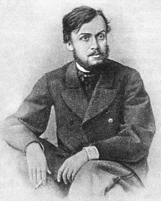 Russian writer Gleb Uspensky. 1868